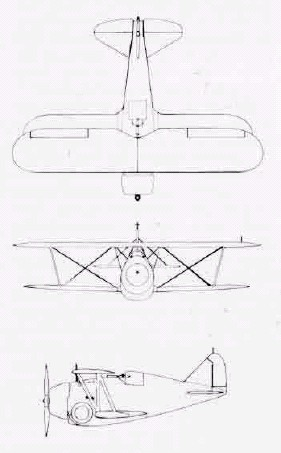 Three-side drawing of a Grumman F2F-1 fighter.